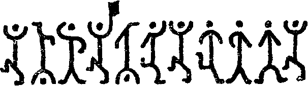 Third phrase code from "The adventure of dancing men" by Arthur Conan Doil.